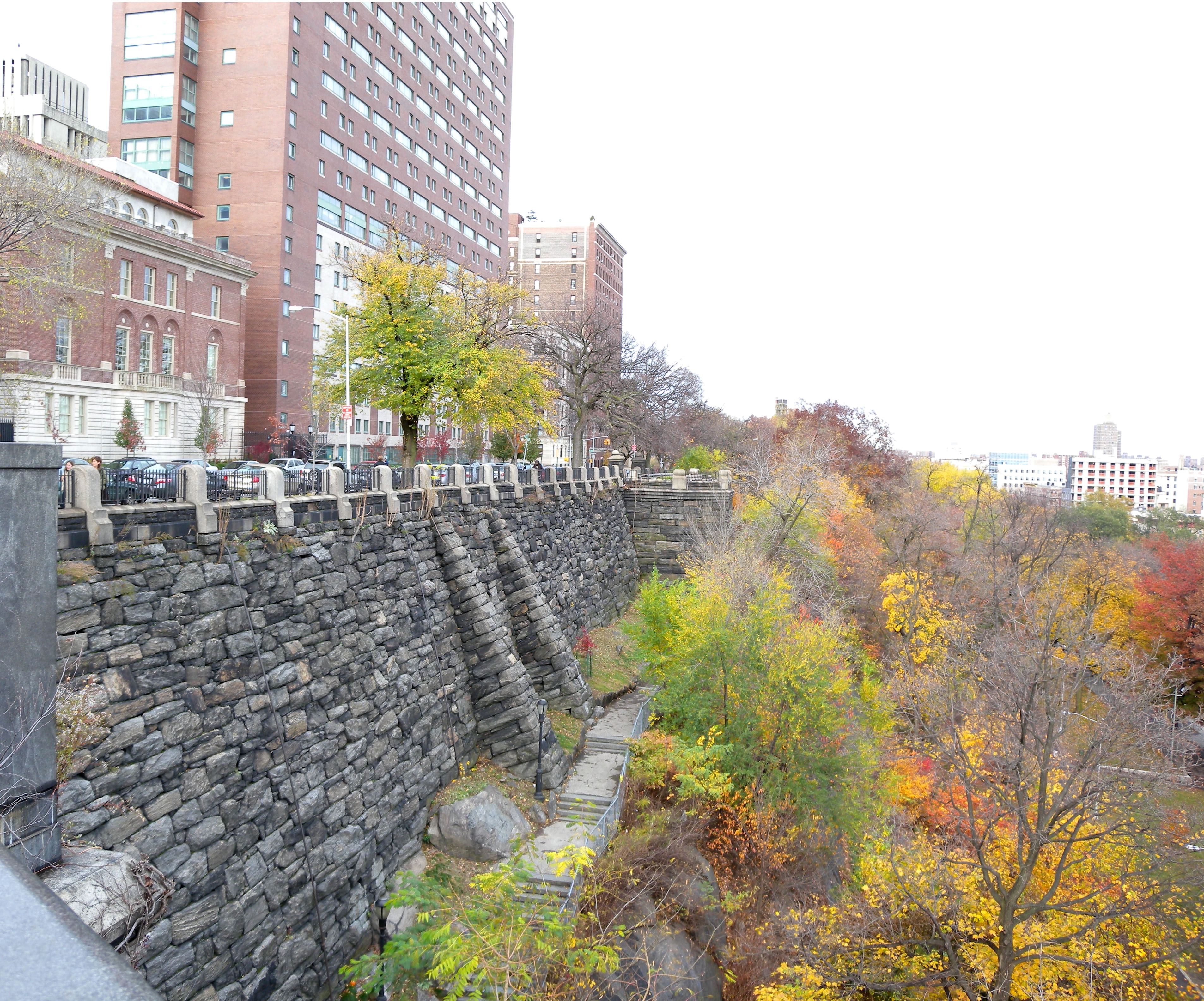 Looking north along Morningside Drive retaining wall on a cloudy afternoon from the en:116th Street (Manhattan) overlook.